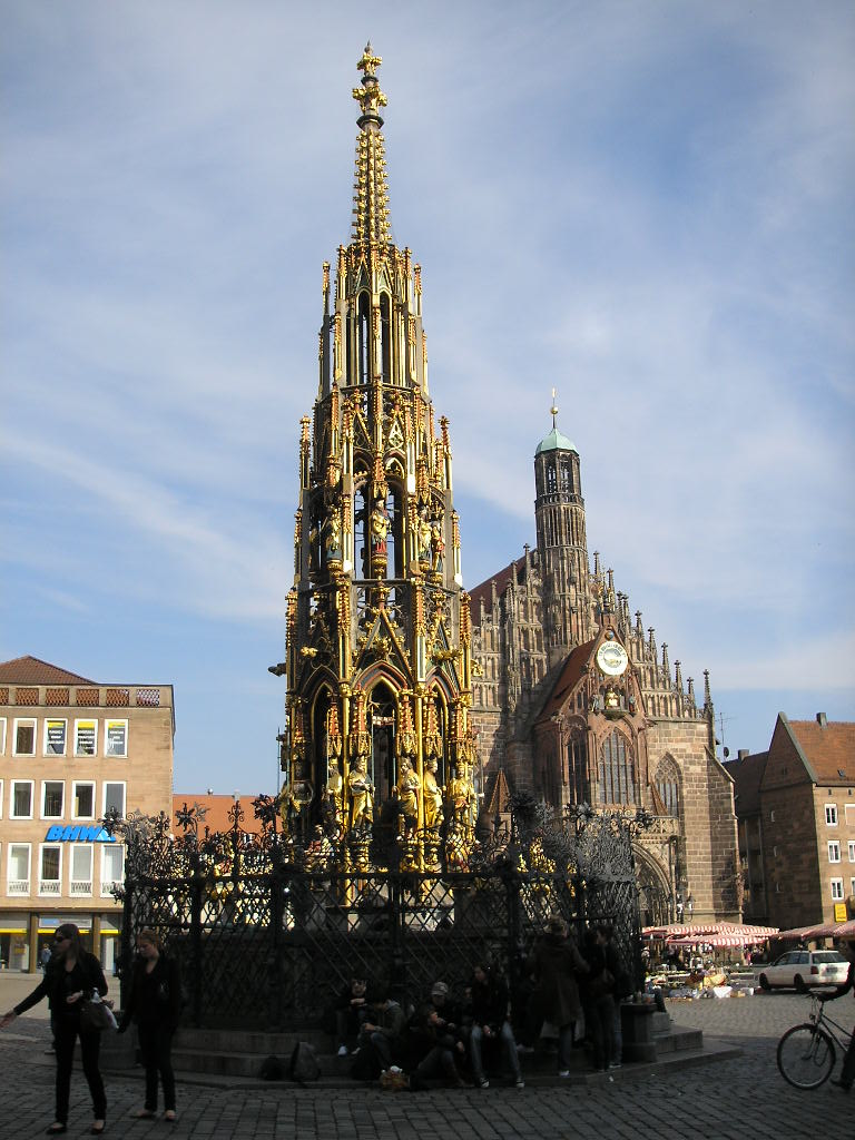 Image of the Schöner Brunnen in Nuremberg, Bavaria.